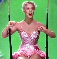 Screenshot of Betty Hutton from the trailer for the film The Greatest Show on Earth.